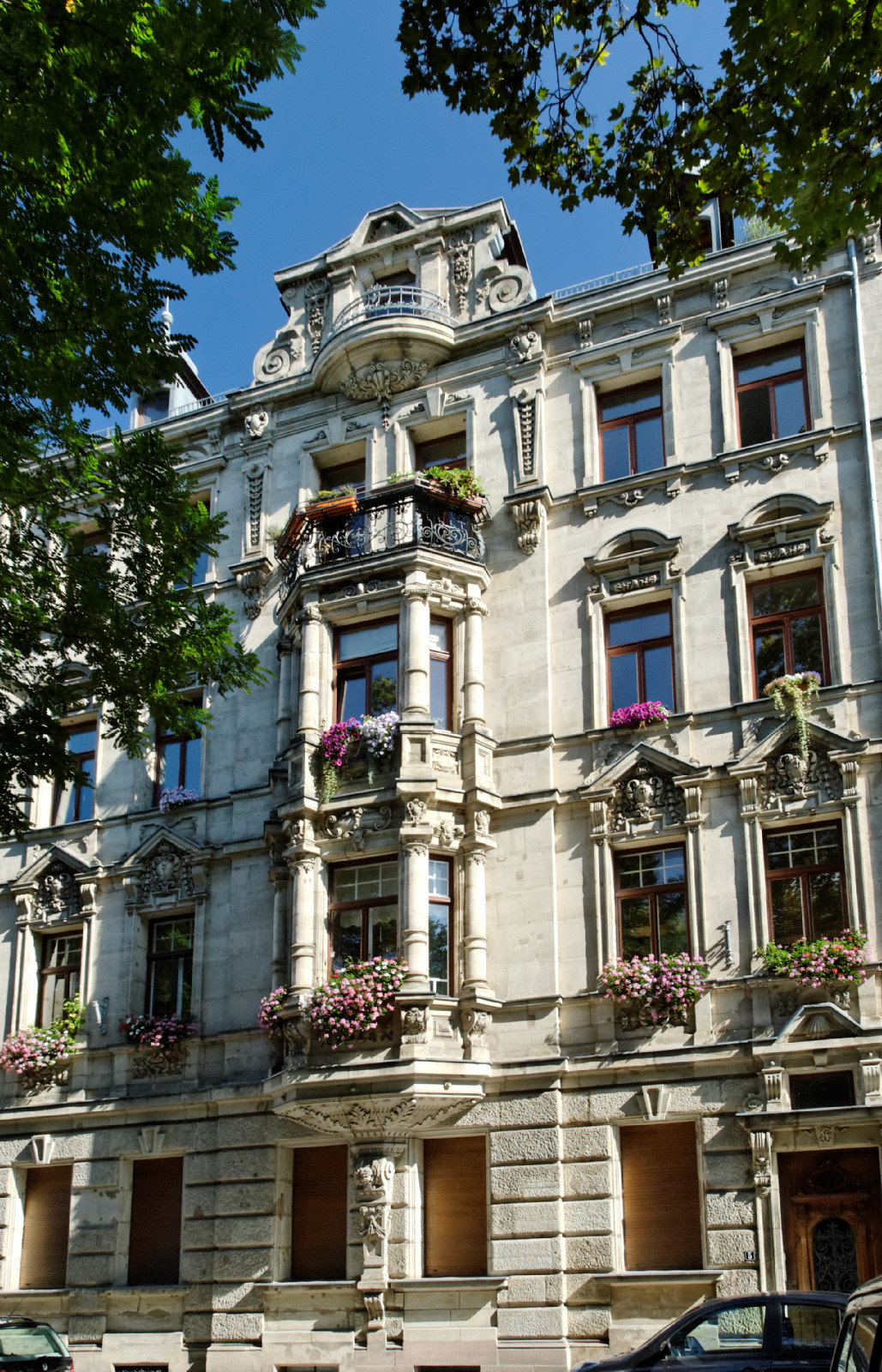 House Hornschuchpromenade 5 in Fürth, Germany